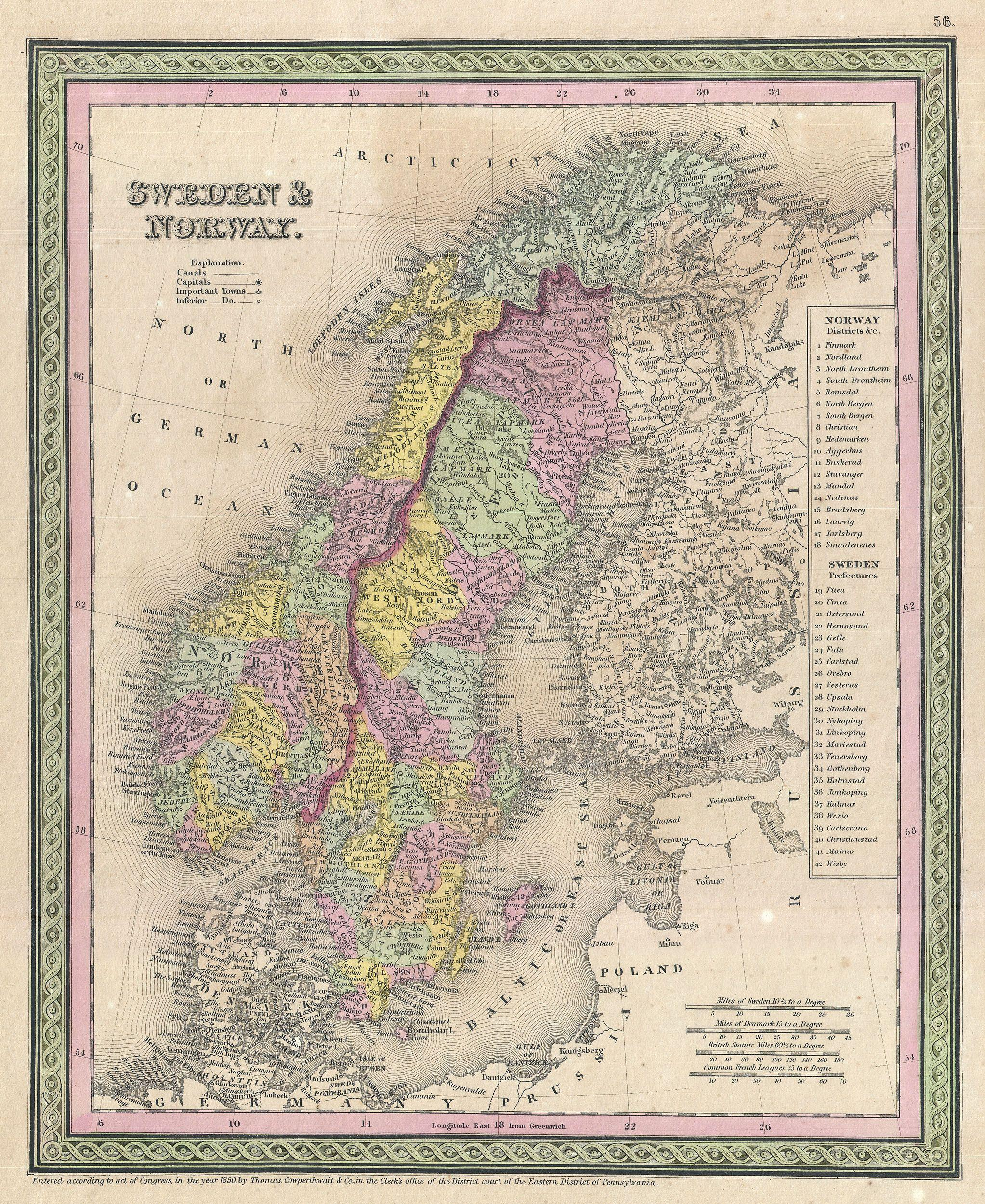 A beautiful example of S. A. Mitchell senior's 1850 map of Scandinavia, including Sweden, Norway, Denmark and Finland. Map shows Scandinavia in full with color coding according to region. A table to the right of the map details various districts and prefectures. In addition to towns, cities, rivers, and provinces, Mitchell also identifies an assortment of additional geographical and topographical details. Notes the legendary and semi-mythical whirlpool known as the Maelstrom (Mahl Strom) in northwestern Norway. Published S. A. Mitchell Sr. as page numbers 56 in the 1850 edition of New Universal Atlas.